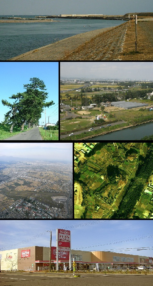 Natori montage